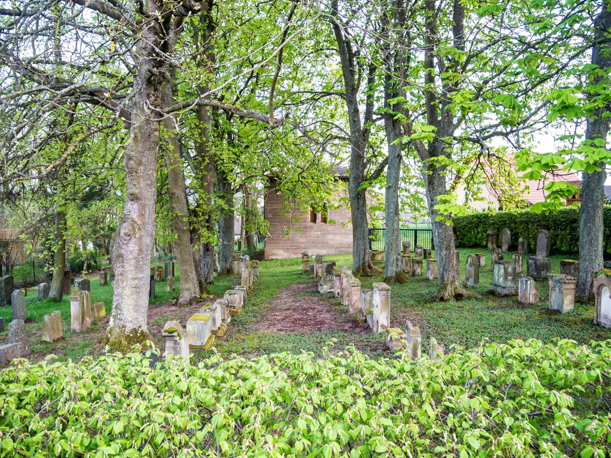 Winnweiler Judenfriedhof b